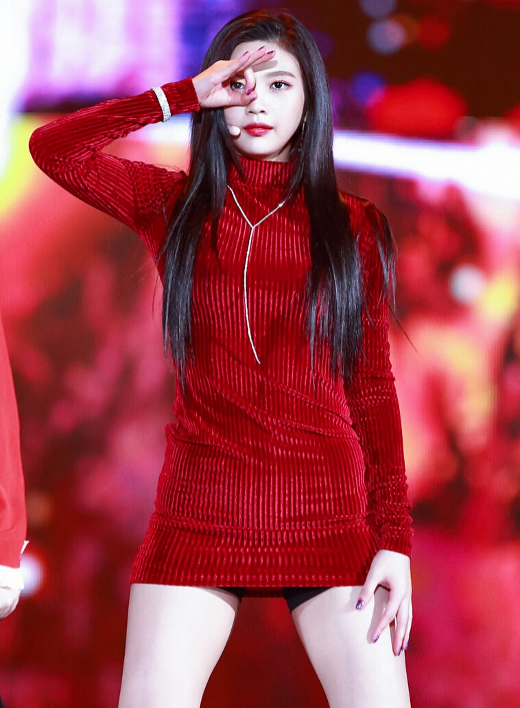 Joy Park performing the Red Velvet song "Peek-a-Boo" at Melon Music Awards in December 02, 2017.